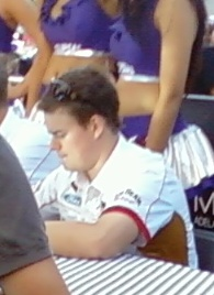 James Moffat in Adelaide's Rundle Mall prior to the 2011 Clipsal 500 Adelaide